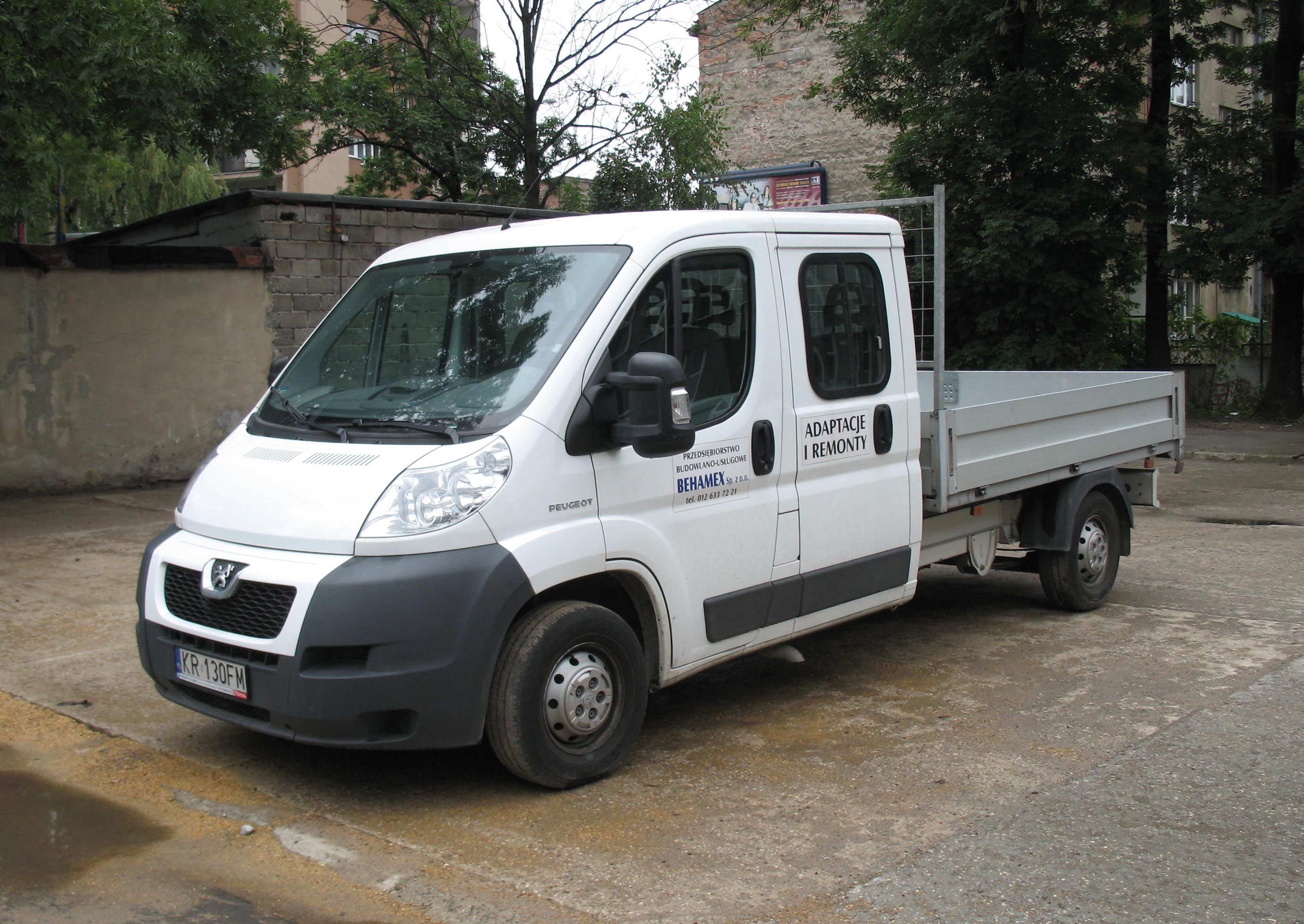 Peugeot Boxer double cab in Kraków, Poland.